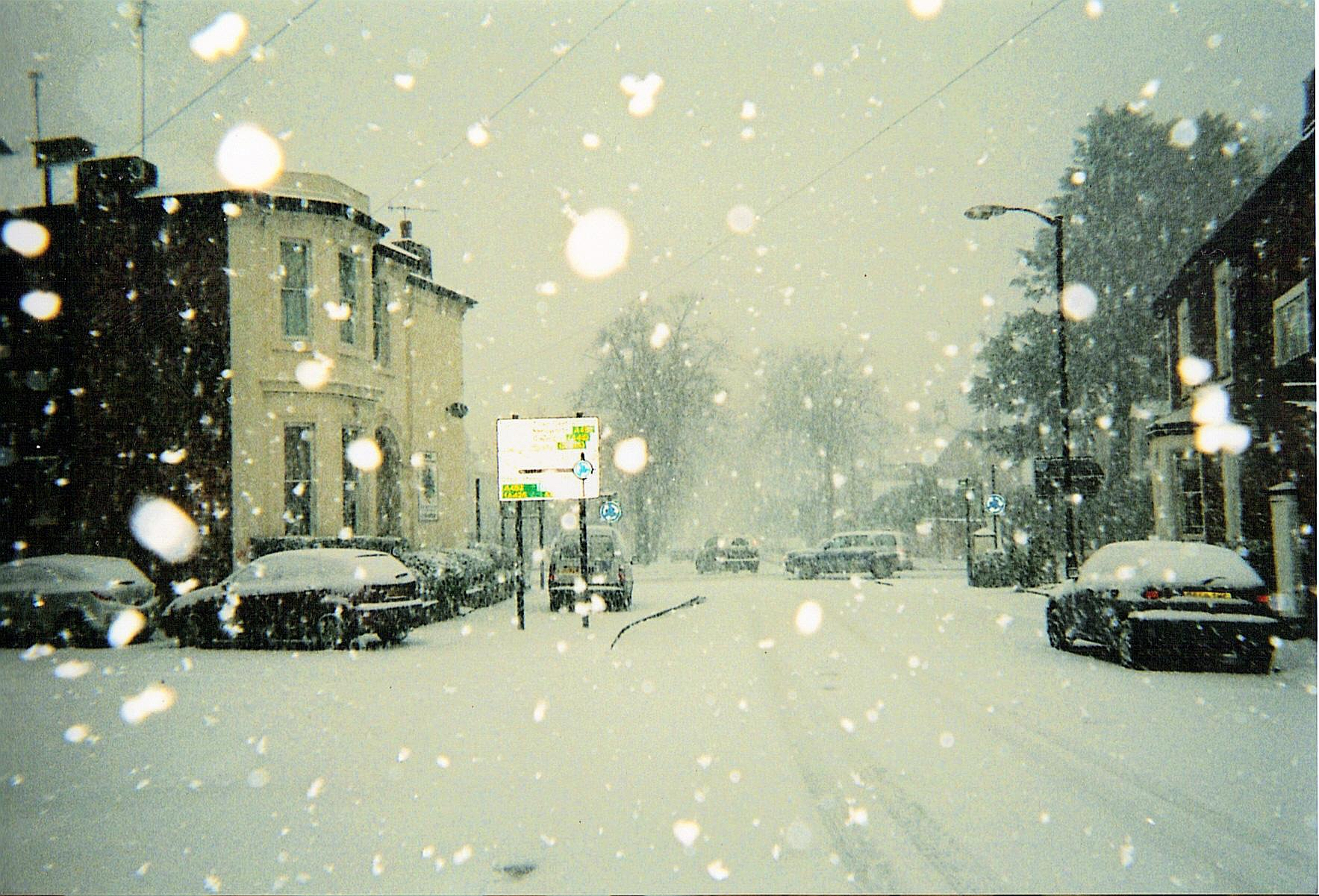 A blizzard on December 18, 2010, at Leamington Spa in the United Kingdom.